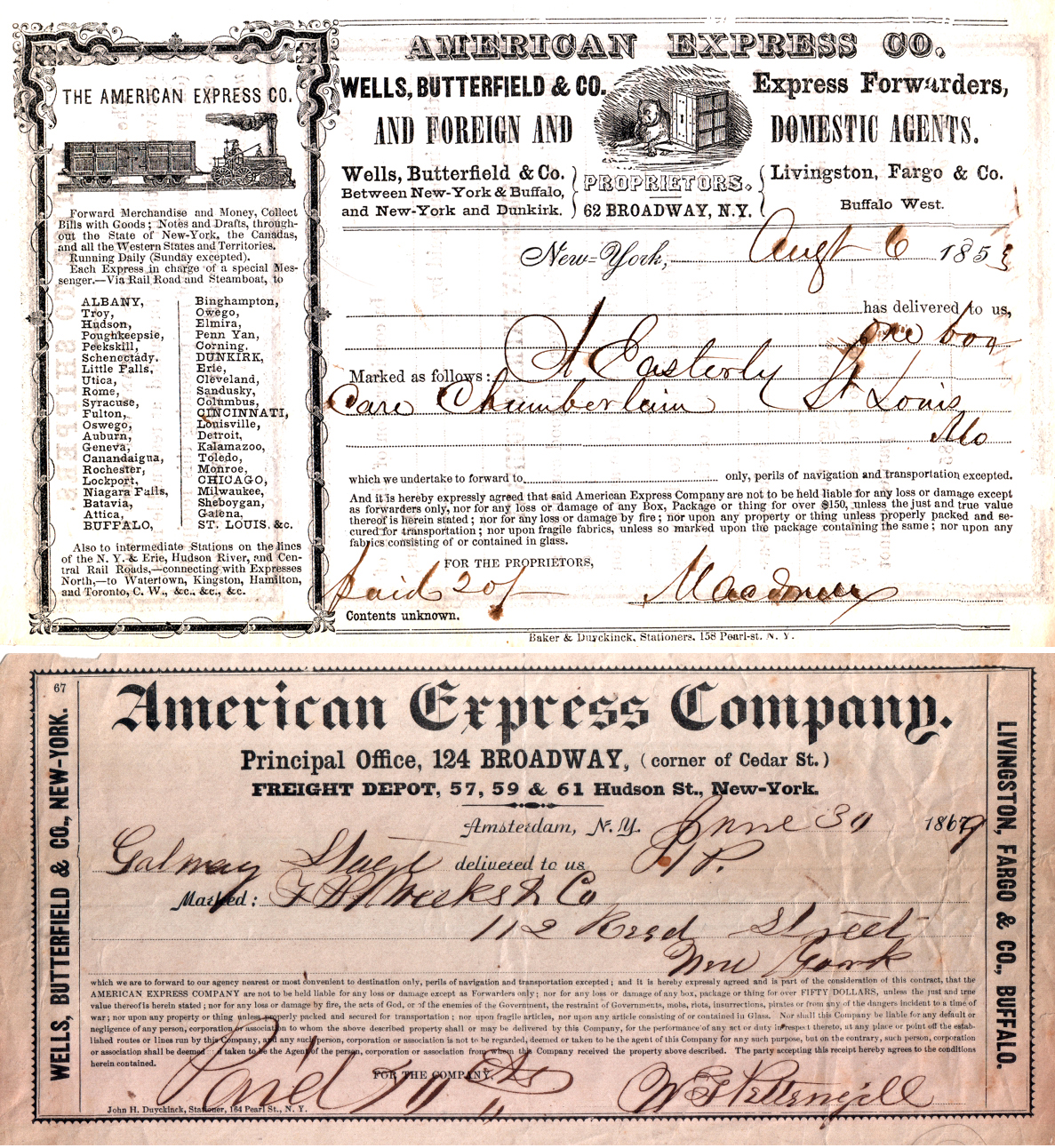 American Express Co. shipping receipts. New York, NY August 6, 1853; Amsterdam, NY June 30, 1869